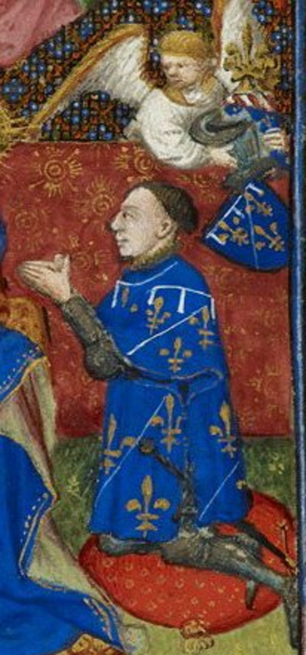 Jean d'Orléans, count of Dunois, detail of a medieval miniature